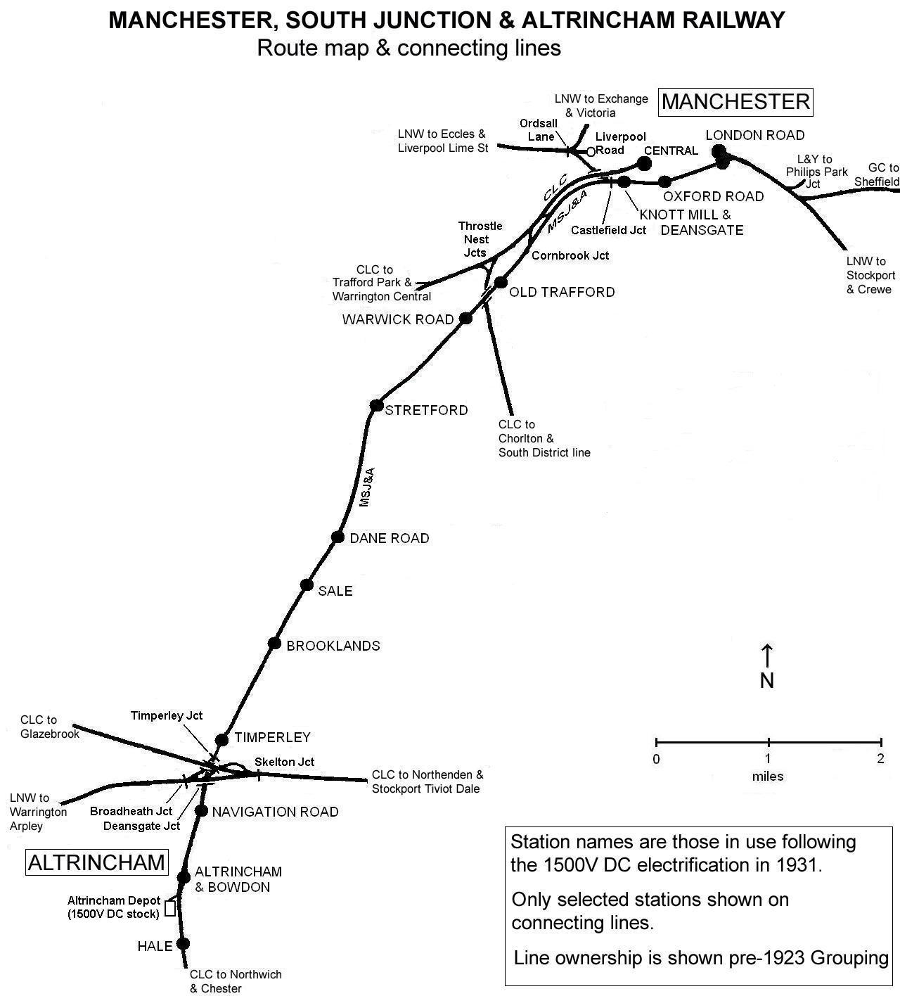 Route map of the Manchester, South Junction and Altrincham Railway as at December 1931